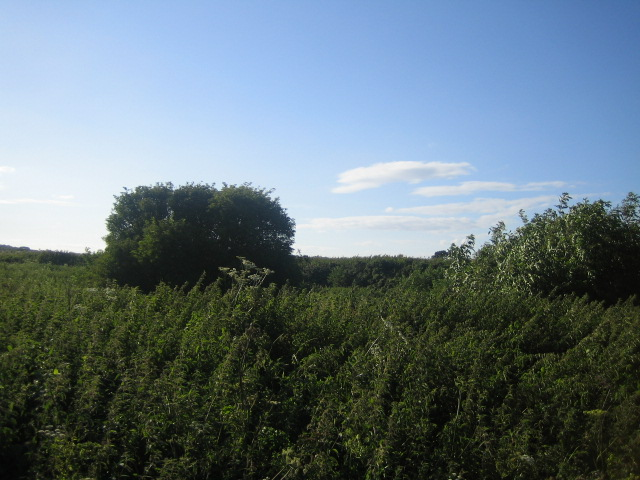 Quarry, Lady Down These bushes near the top of Lady Down mark the edge of a heavily overgrown and inaccessible disused shallow circular quarry or pit which is shown on the OS 1:25,000 map as Pit (dis). The stone extracted from the quarry was limestone from the Middle Purbeck beds of the Jurassic period, and the quarry was last used around 1900 to extract stone for tiles. Aerial photographs from 1946 show a number of other small quarry pits on Lady Down over an area of 11 hectares which are marked as a Roman stoneworking site on the OS map of Roman Britain.